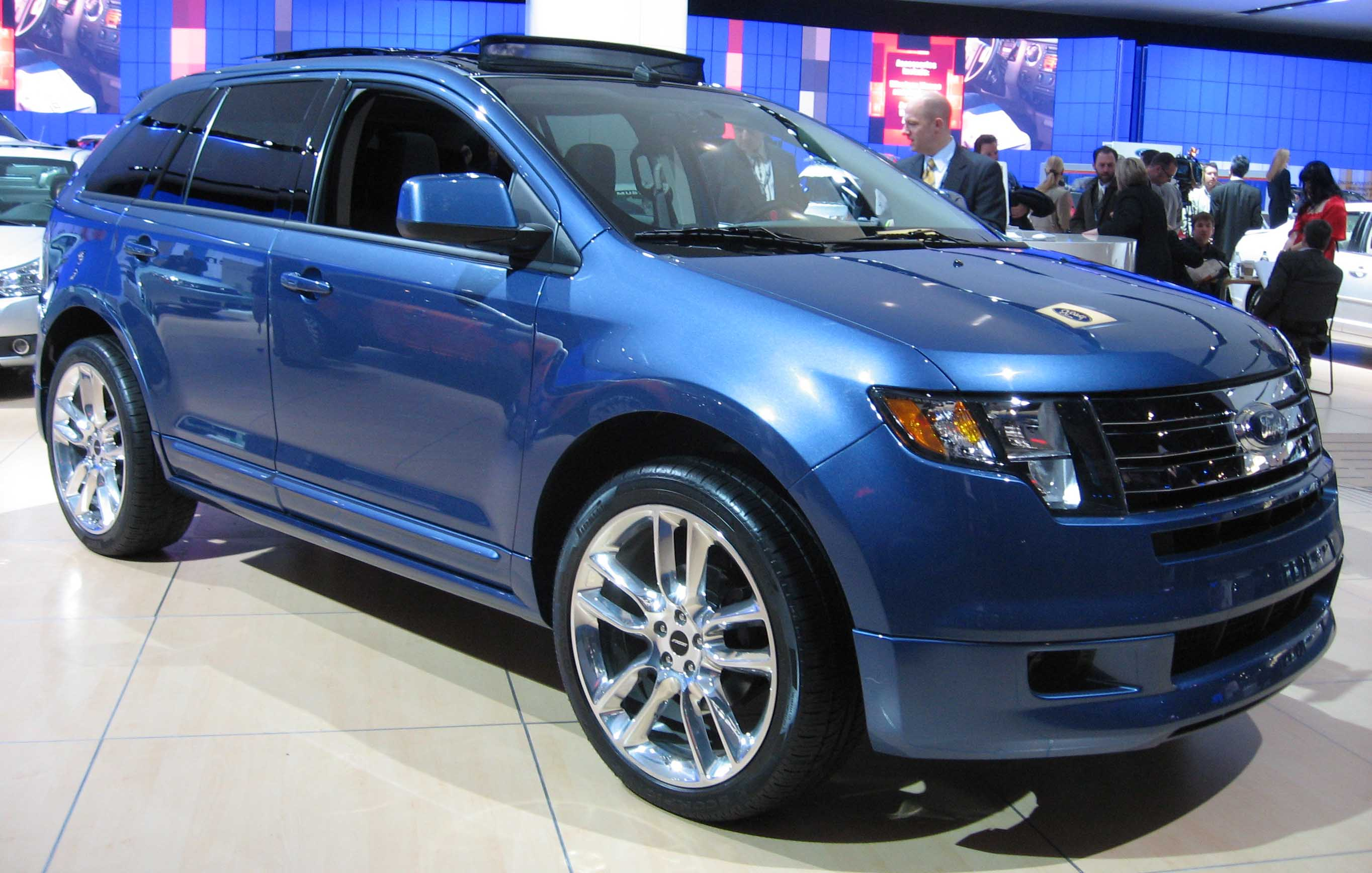 2009 Ford Edge photographed at the 2008 New York Auto Show.